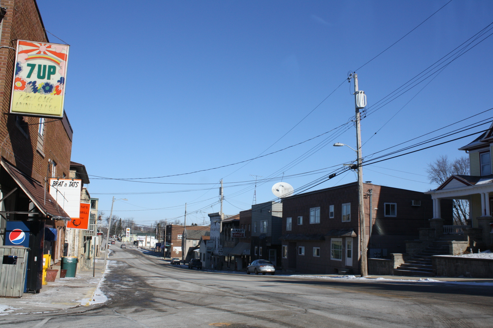 Downtown Theresa, Wisconsin on Wisconsin Highway 175, formerly the Yellowstone Trail.